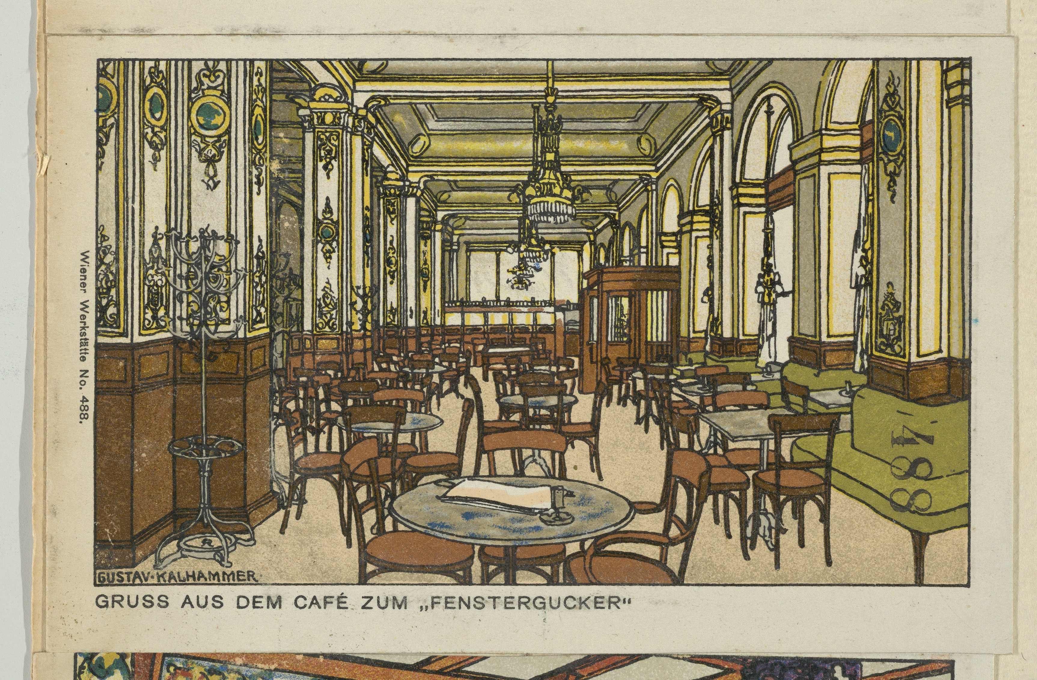 Print; Prints